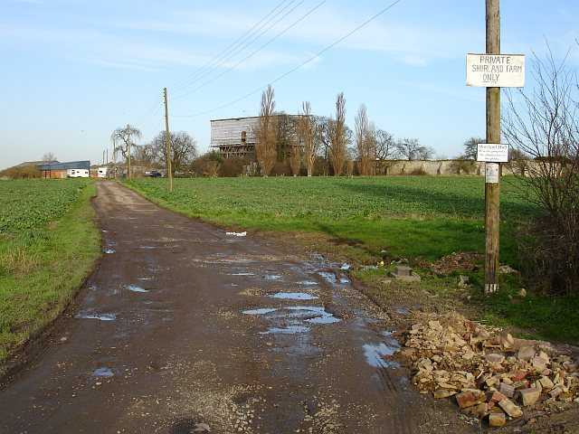 Shurland Shurland Hall has been swathed in scaffolding and plastic for at least 10 years but English Heritage have recently agreed a grant towards its preservation. The Tudor building which still exists was, apparently, the gatehouse to a fortified Manor house built for Thomas Cheyne, a favourite of Henry VIII. The King is said to have honeymooned here with Anne Boleyn. The history of the site seems to go back much further. King Hoestan of Denmark arrived at Sheppey with 350 ships in 892 and in 893 built earthworks in the area, probably on the site of a previous Roman Fort. Roman tiles have been found embedded in vitrified cement in the masses of masonry on the site of Shurland Hall itself. Apart from the ruined gatehouse there is a long stone wall, presumably also Tudor, which is visible on the right of the picture.